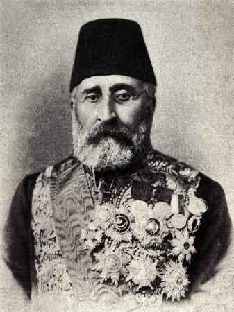 Spyridon Mavrogenis Pasha (1817-1902), a Greek Doctor of the Ottoman Empire